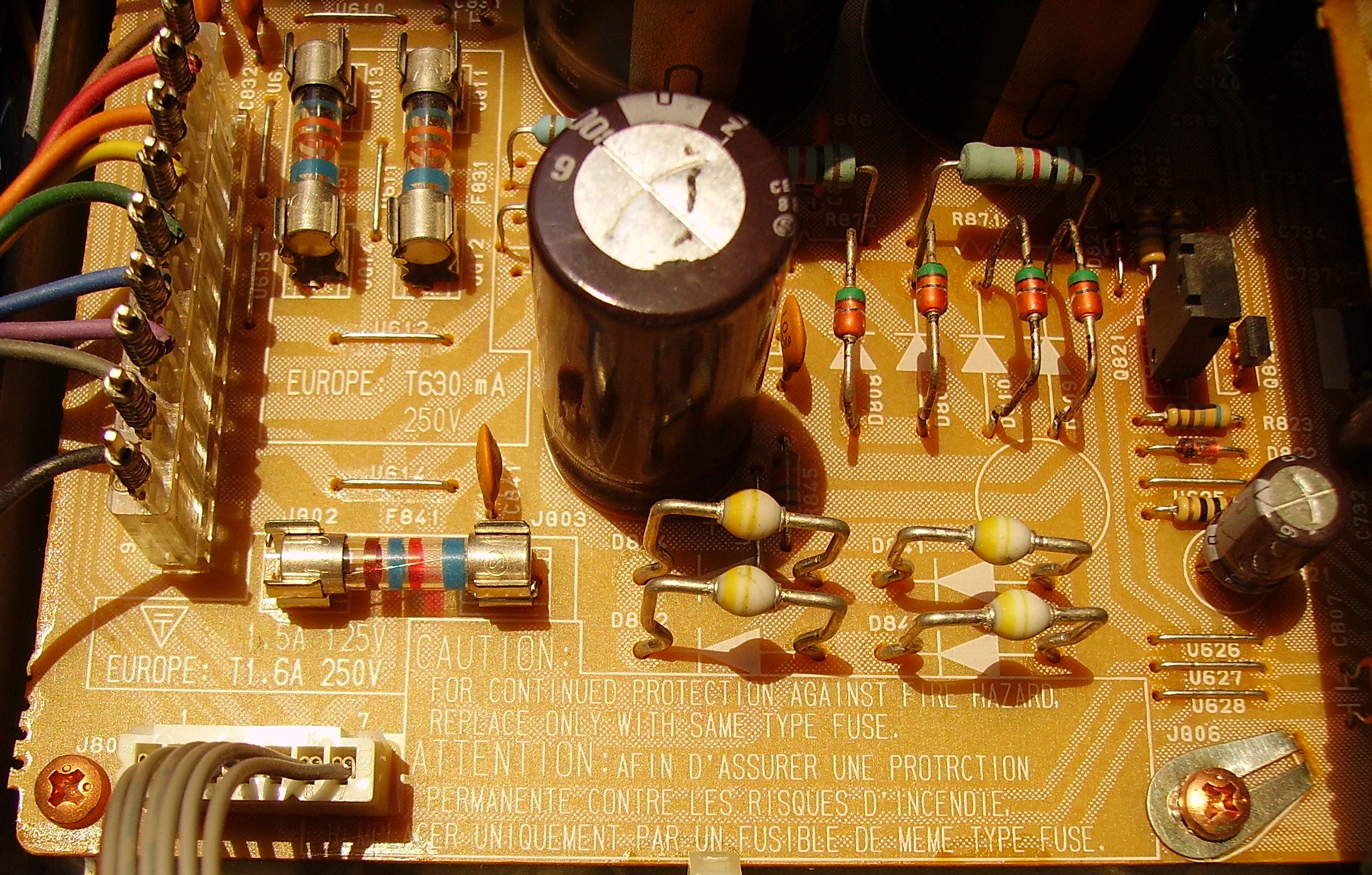 "Caution: for continued protection against fire hazard, replace only with same type fuse". Device: 1989 Marantz CD-94MKII CD player.